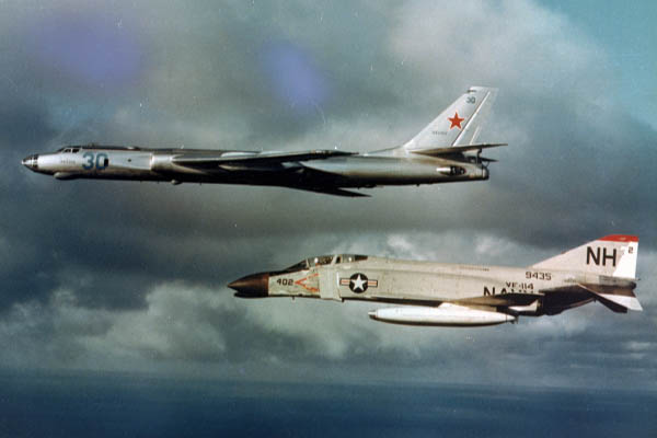 A U.S. Navy McDonnell F-4B Phantom II fighter (BuNo 149435) of fighter squadron VF-114 Aardvarks intercepting a Soviet Tu-16 Badger bomber. VF-114 was assigned to "Carrier Air Group 11 (CVG-11)" aboard the aircraft carrier USS Kitty Hawk (CVA-63) for a deployment to the Western Pacific from 13 September 1962 to 20 April 1963.